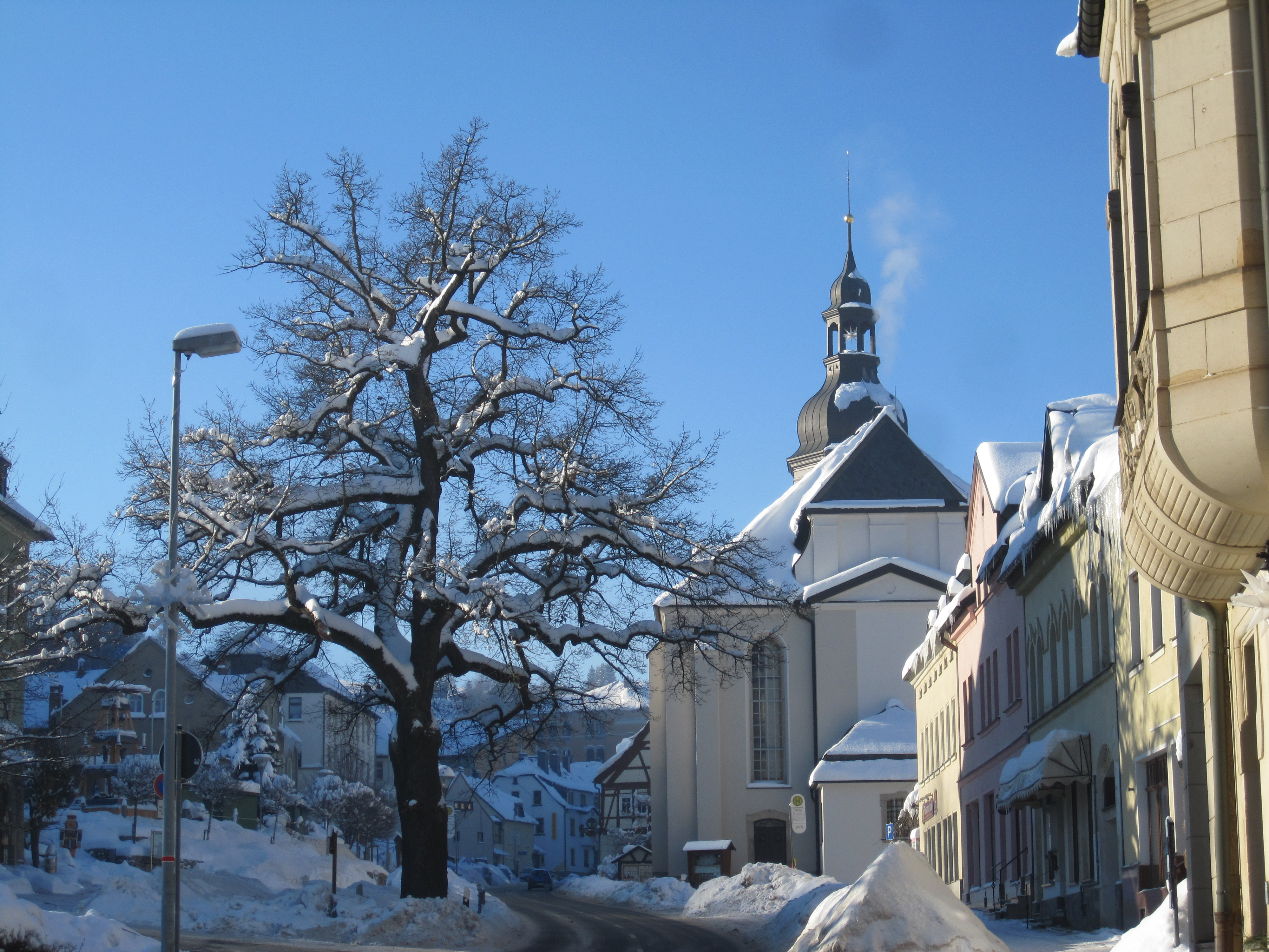 Schönheide in the Ore Mountains - Marketplace in Wintertime, dominating oaktree, with Church and Brush- and Regional Museum